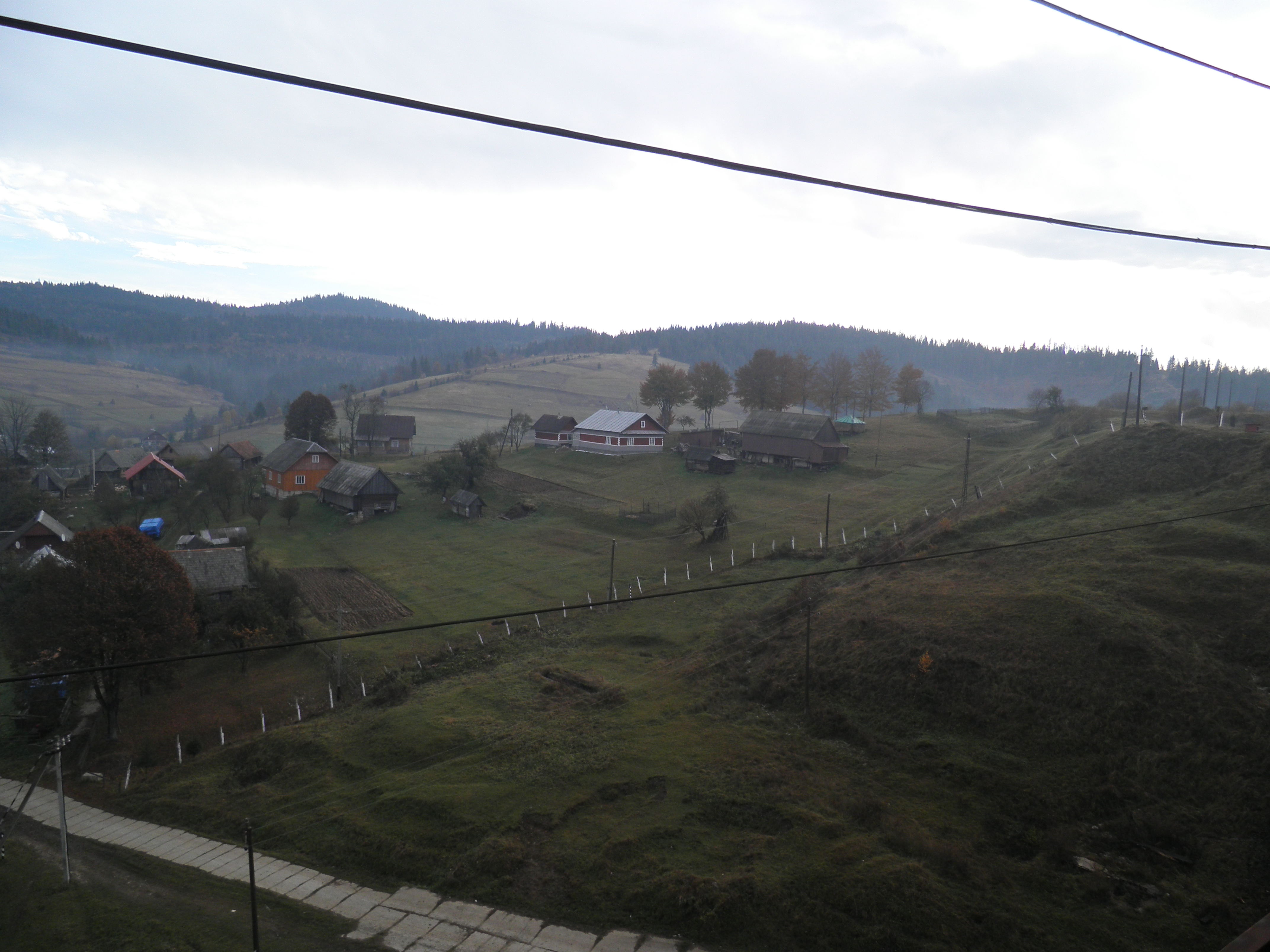 Volovets Pass in Autumn(Fall) 2011, Nothern Part before tonnels on way from Lviv (probably still in Lviv(Lvov) Region, bordered on TransCarpathia). Photo was taken by Me!!!